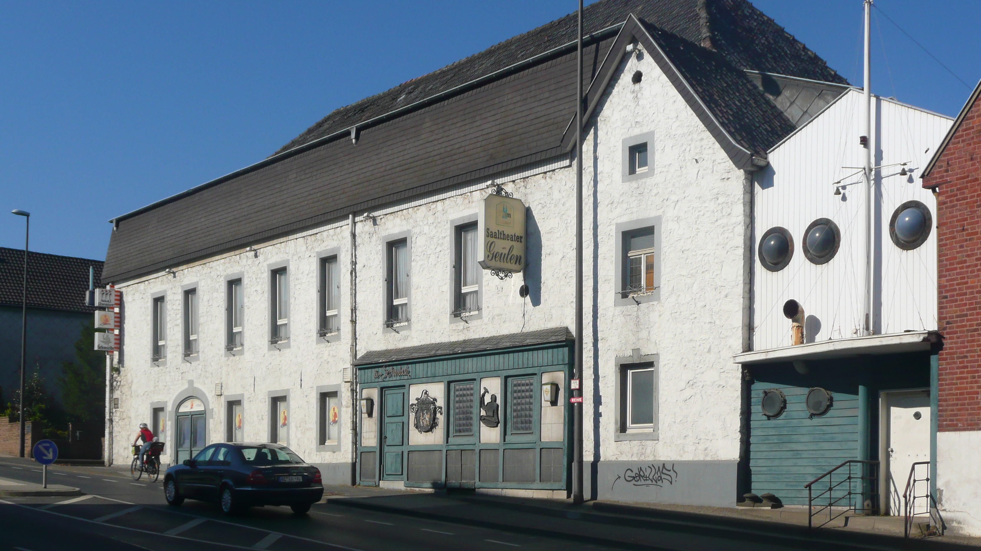 Building in Aachen, Von-Coels-Str.